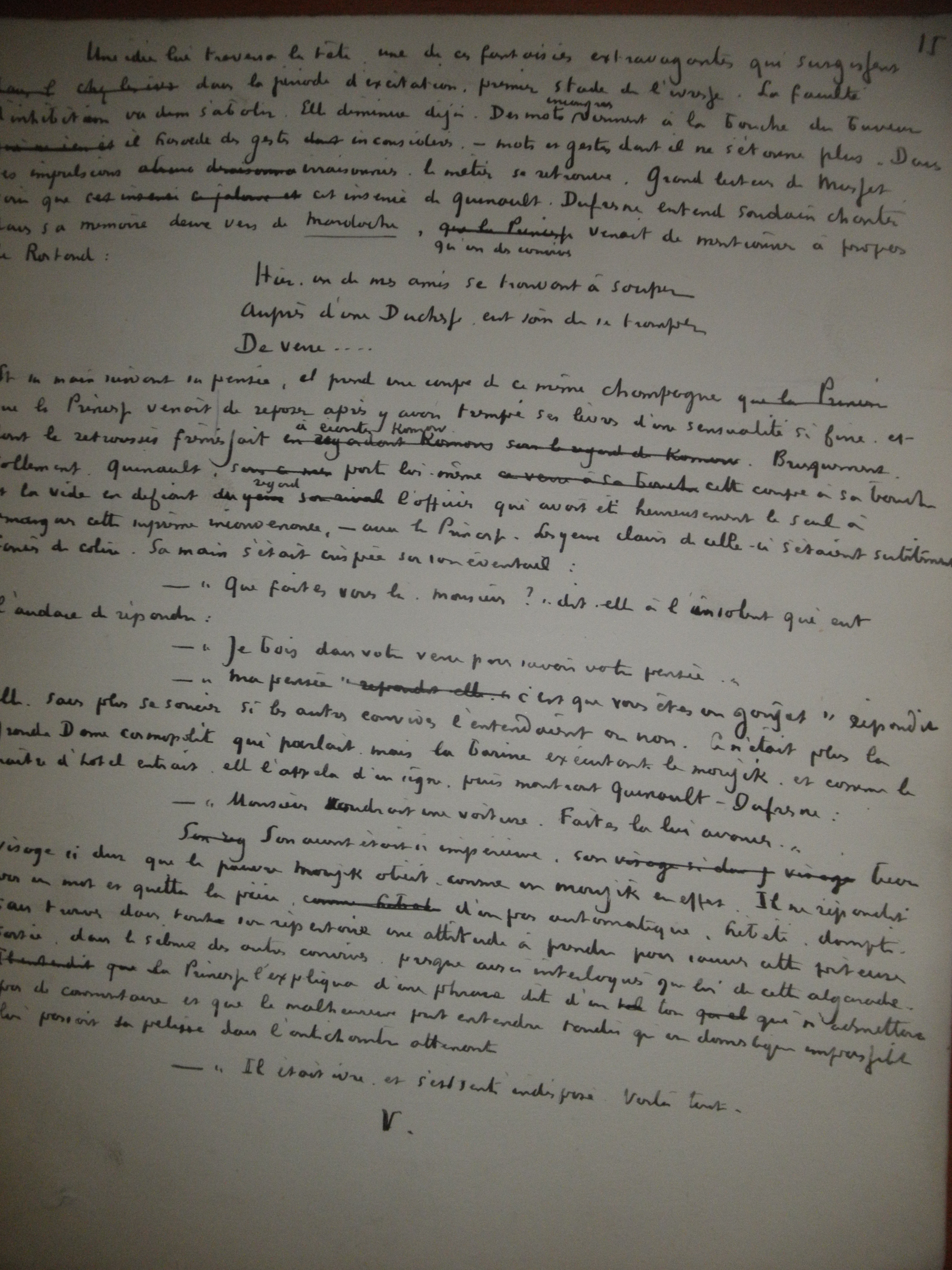 beau role